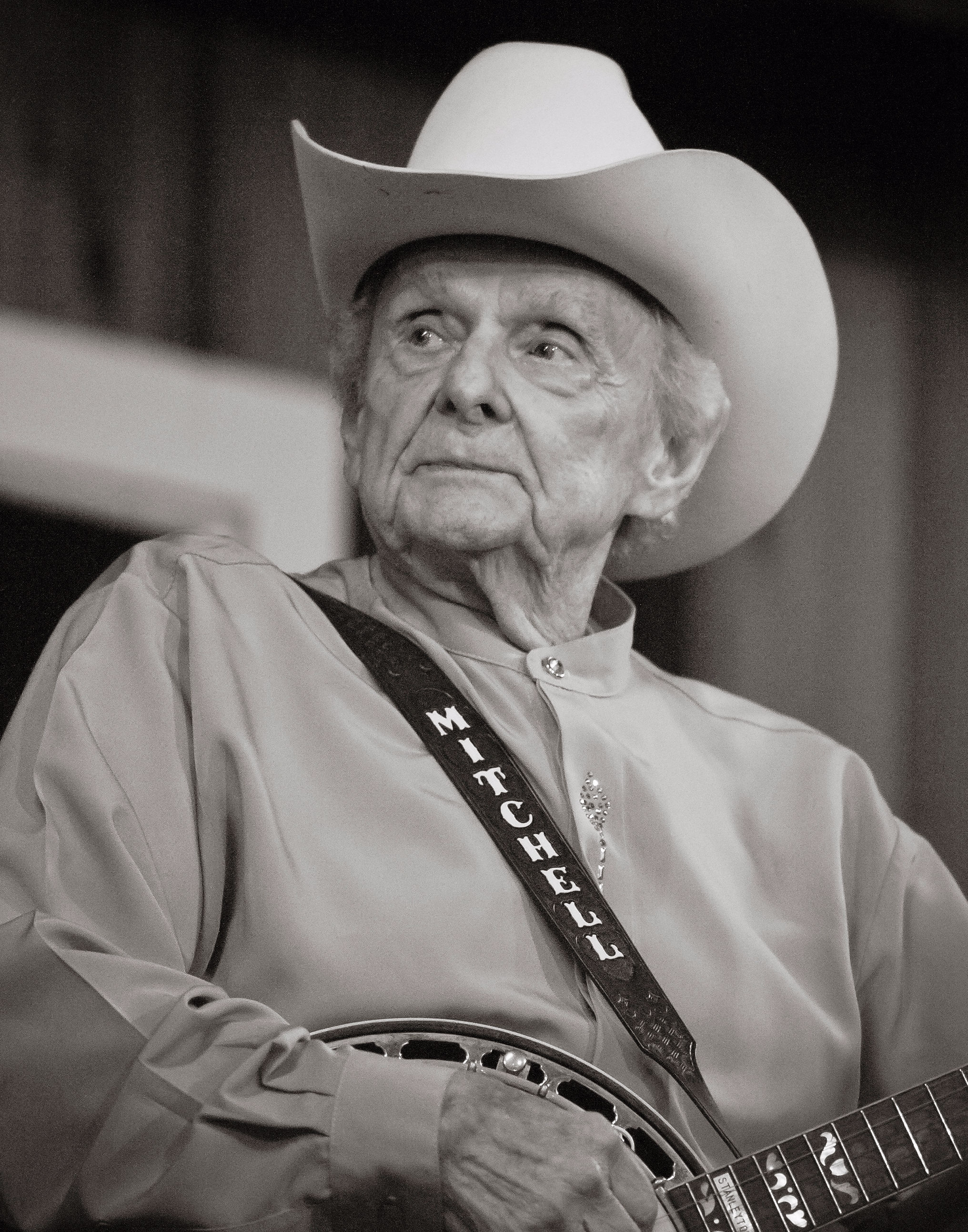 Image of Dr. Ralph Stanley taken by Reed George. Photo was taken during Stanley's appearance with his band, The Clinch Mountain Boys, at the 2011 Watermelon Park Festival in Berryville, VA. Image has been cropped, noise digitally removed, and lighting corrected from original.